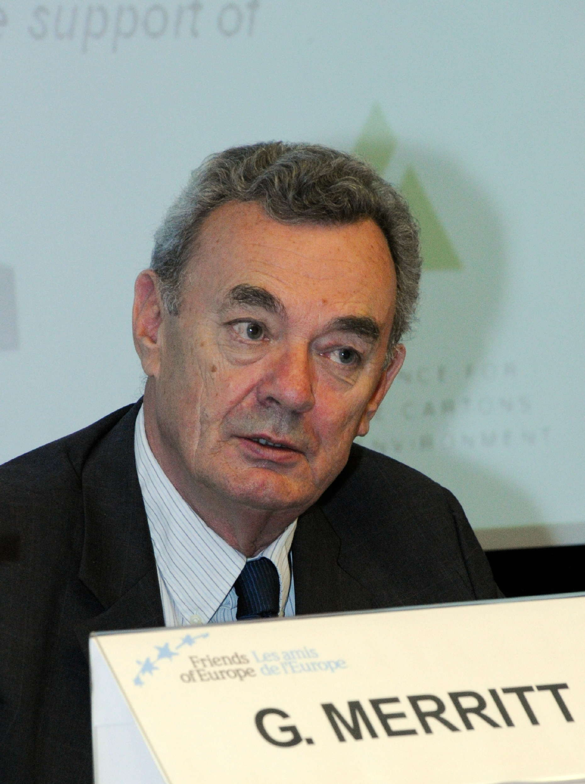 Photographer: Laurent Achedjian